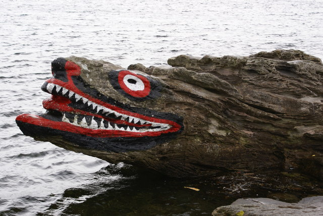 Crocodile Rock - Millport. A fixture in Millport Bay, and long before Elton John decided to sing about it, this rock on the shore has become a popular tourist attraction. Locals paint it each year to ensure it's not easily missed, and children can climb upon it (for free) and have their picture taken.